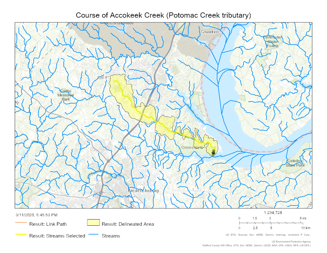 Map of the course of Accokeek Creek (Potomac Creek tributary) in Stafford County, Virginia.